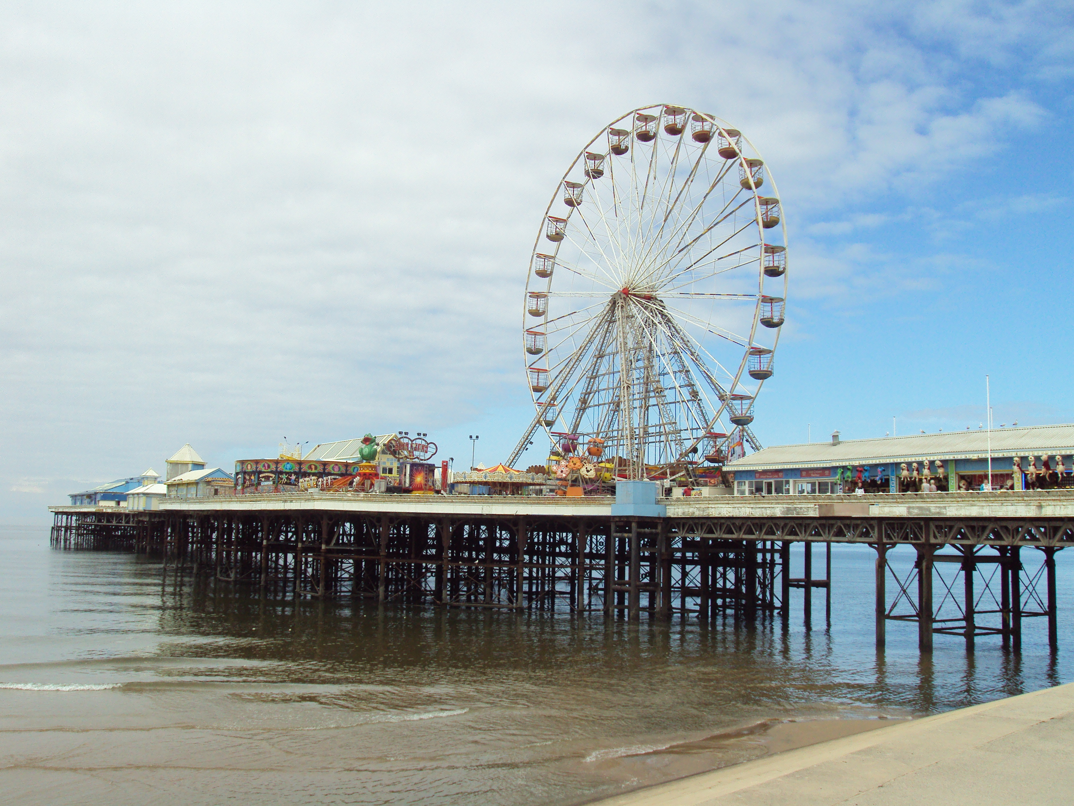 Central Pier, Blackpool, Lancashire.